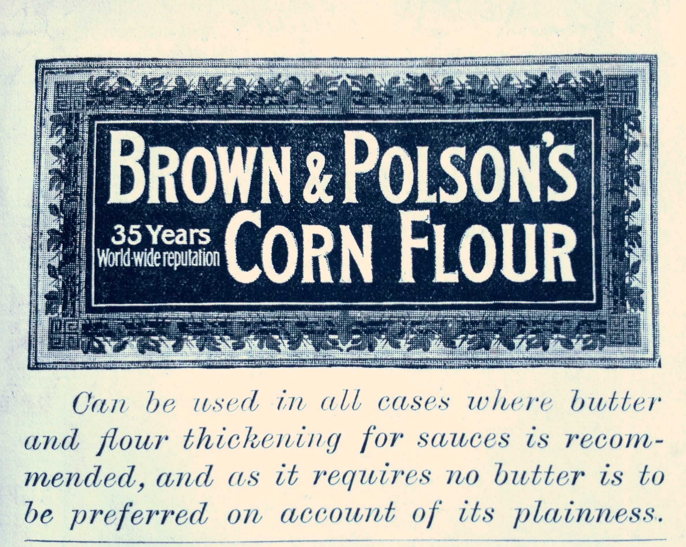 Advertisement for Brown & Polson's in Fifty Breakfasts, Colonel Kenney Herbert, Edward Arnold editor, London, 1894